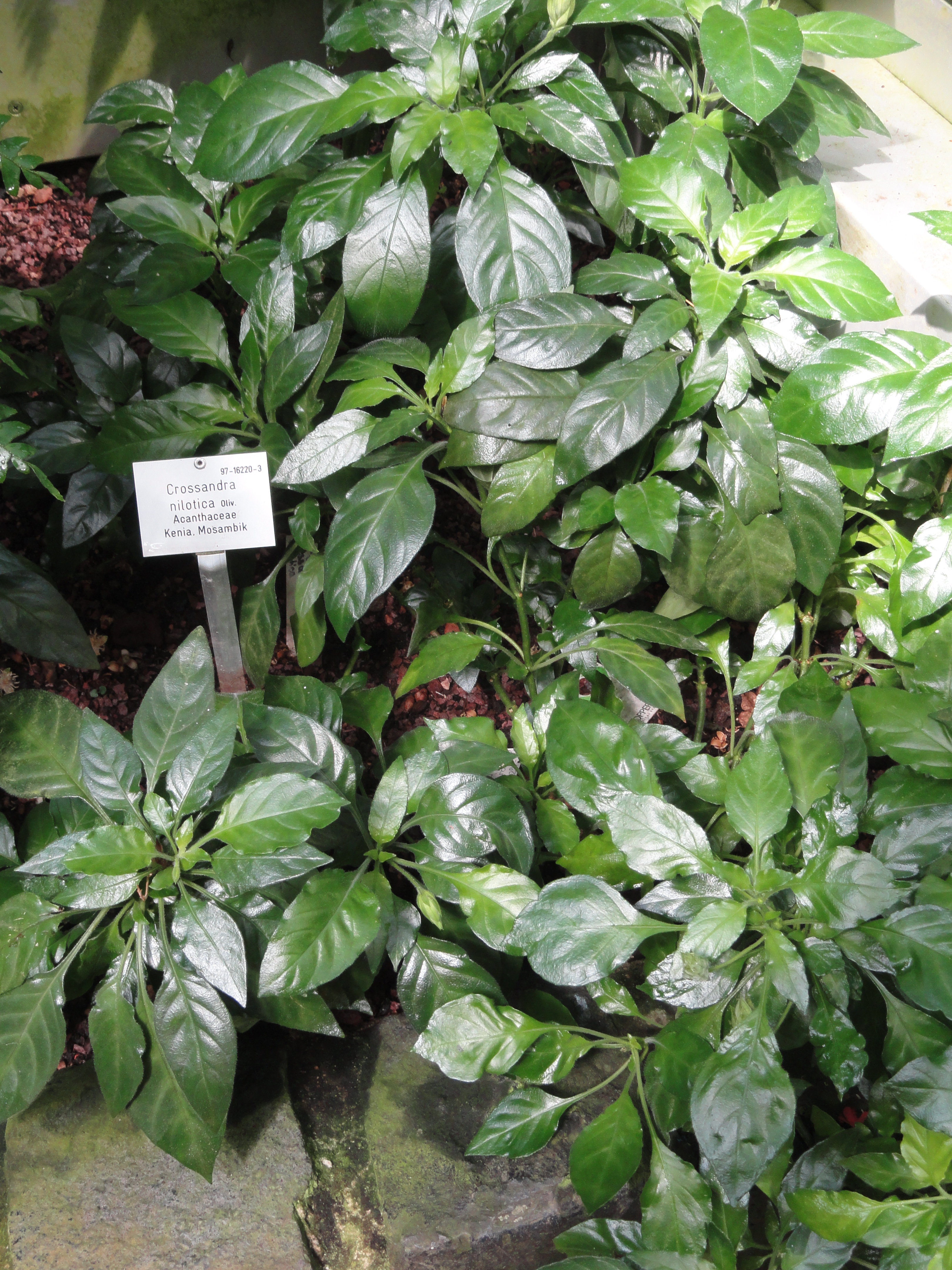 Botanical specimen in the Palmengarten, Frankfurt am Main, Germany.